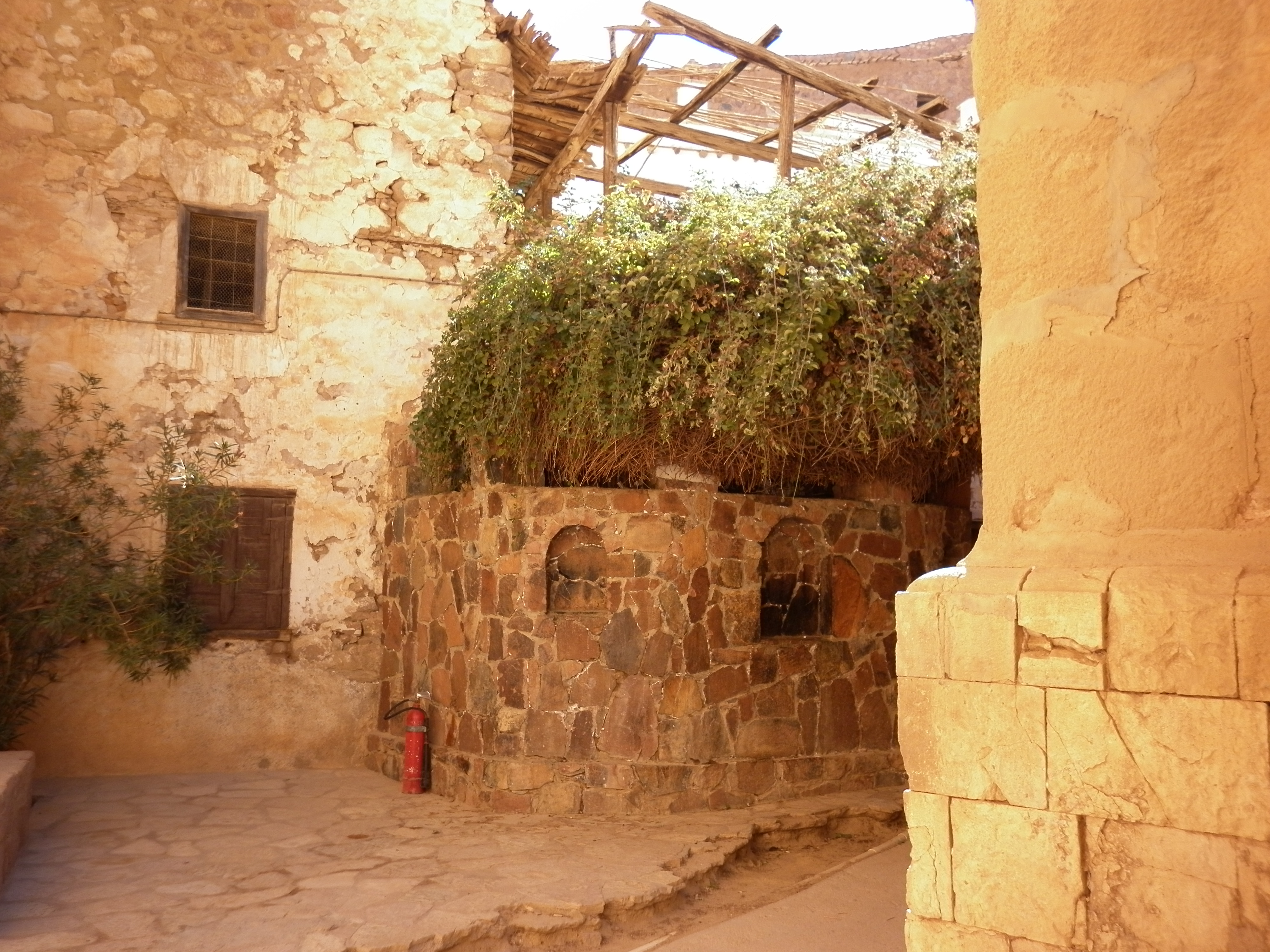 Burning Bush, St Catherine's Monastery